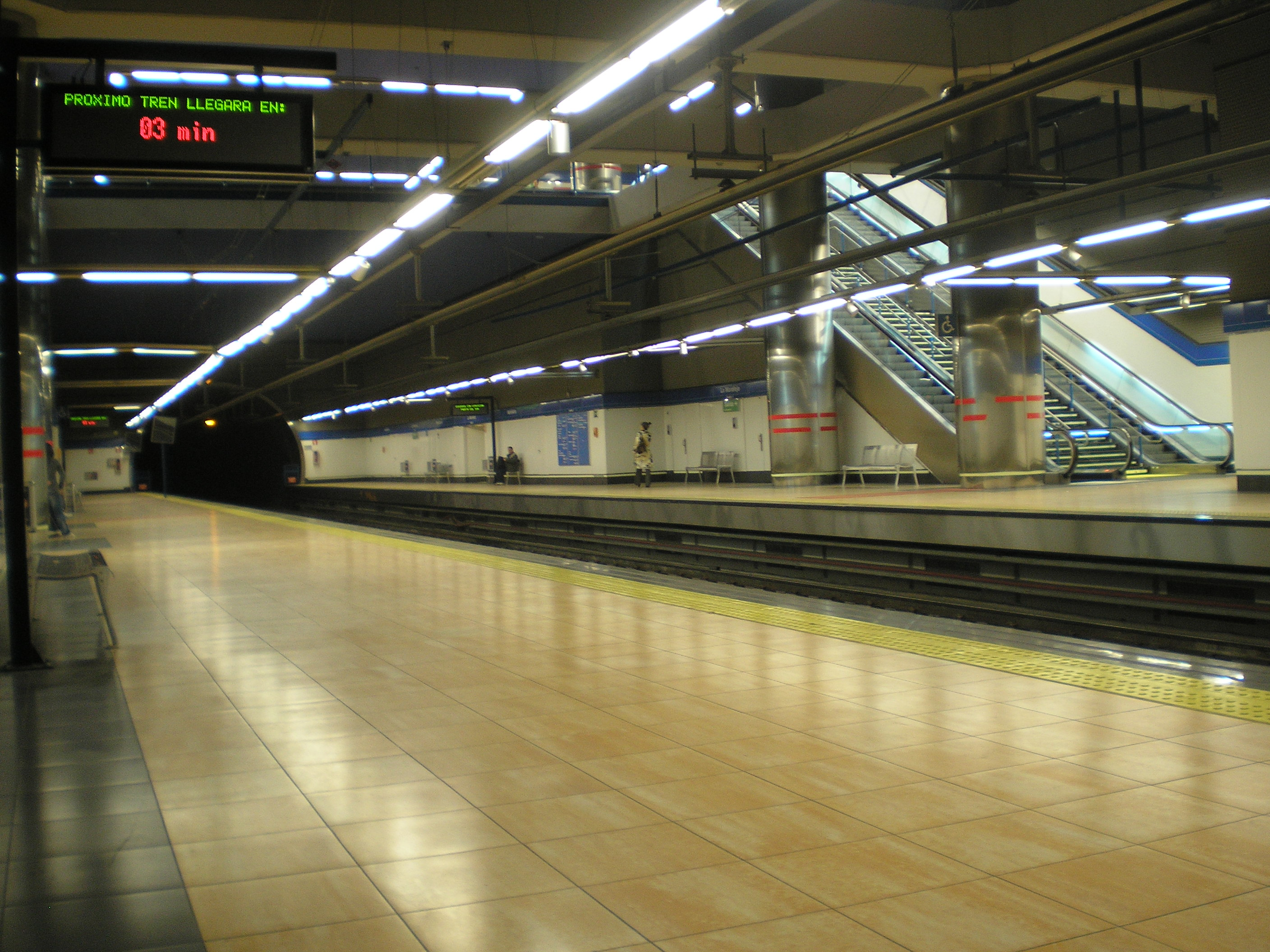 La Moraleja underground station in Alcobendas, Madrid.